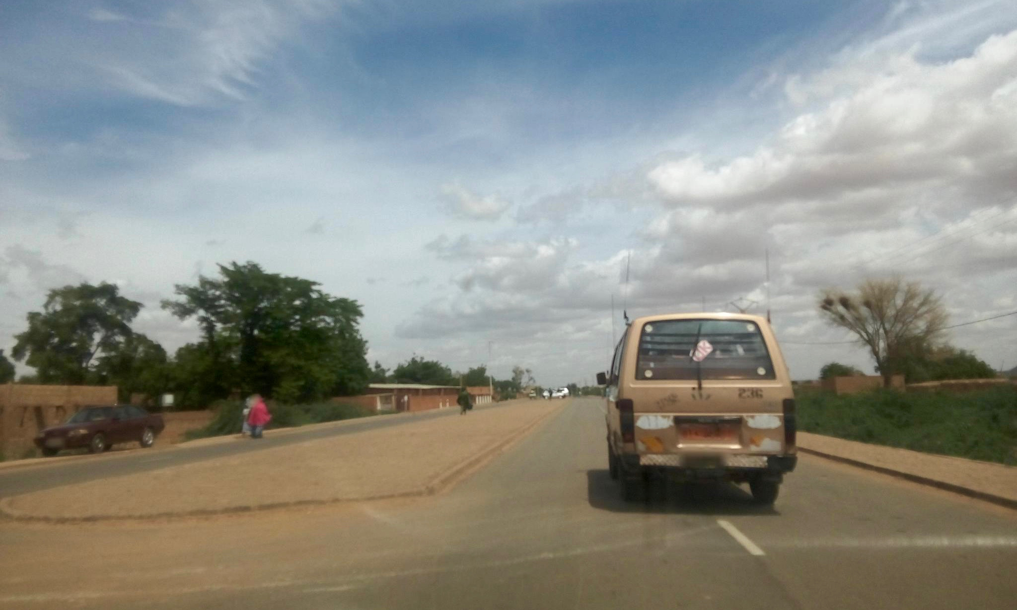 Main road in Gabou Goura, Niamey.